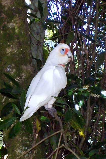 wild Long Billed Corella in a Coachwood/Lilli Pilli/Native Daphne rainforest at Ourimbah